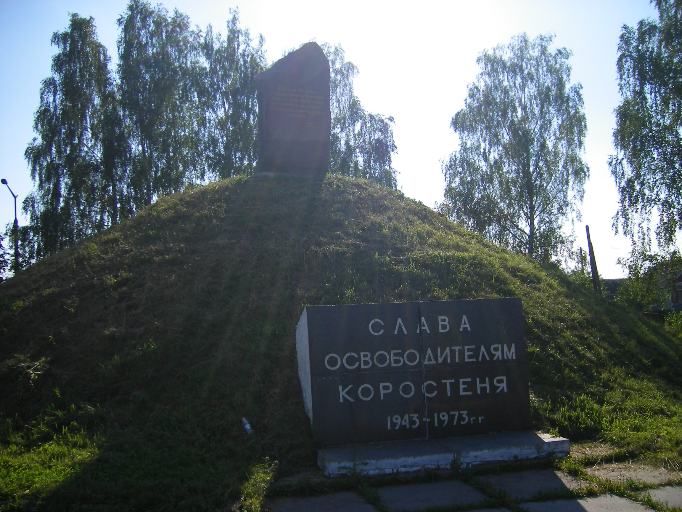 Korosten, WWII memorial